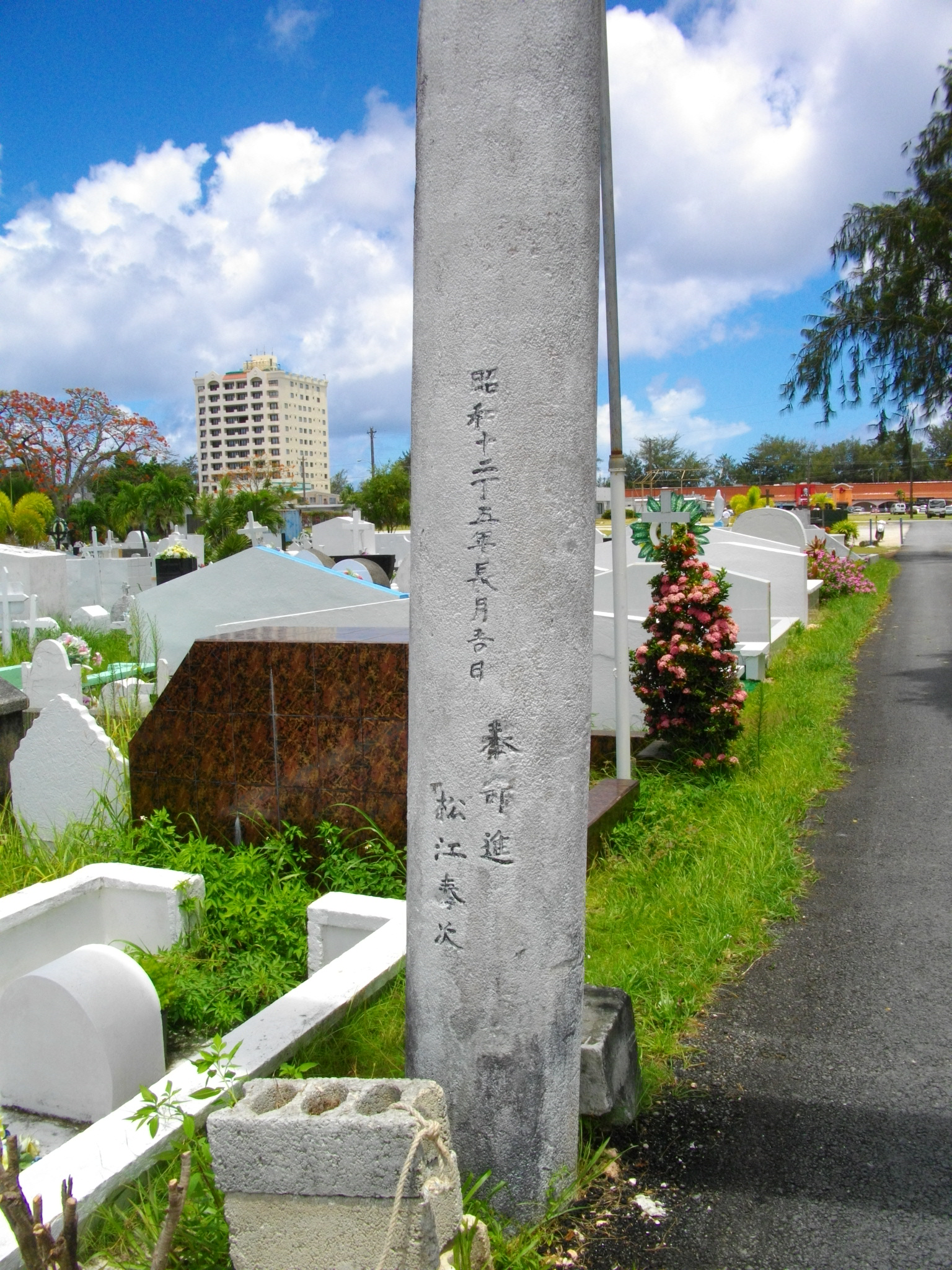 Saipan Mount Carmel Cemetery(Ruins of Nanko Shrine)